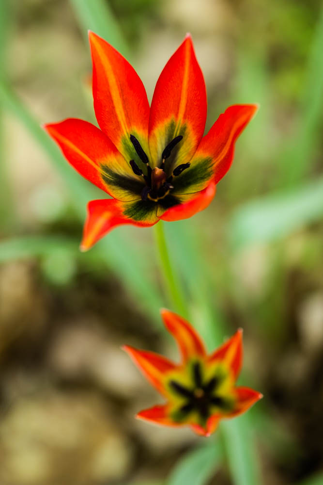 This is a photography of Natura 2000 protected area with ID GR4110005